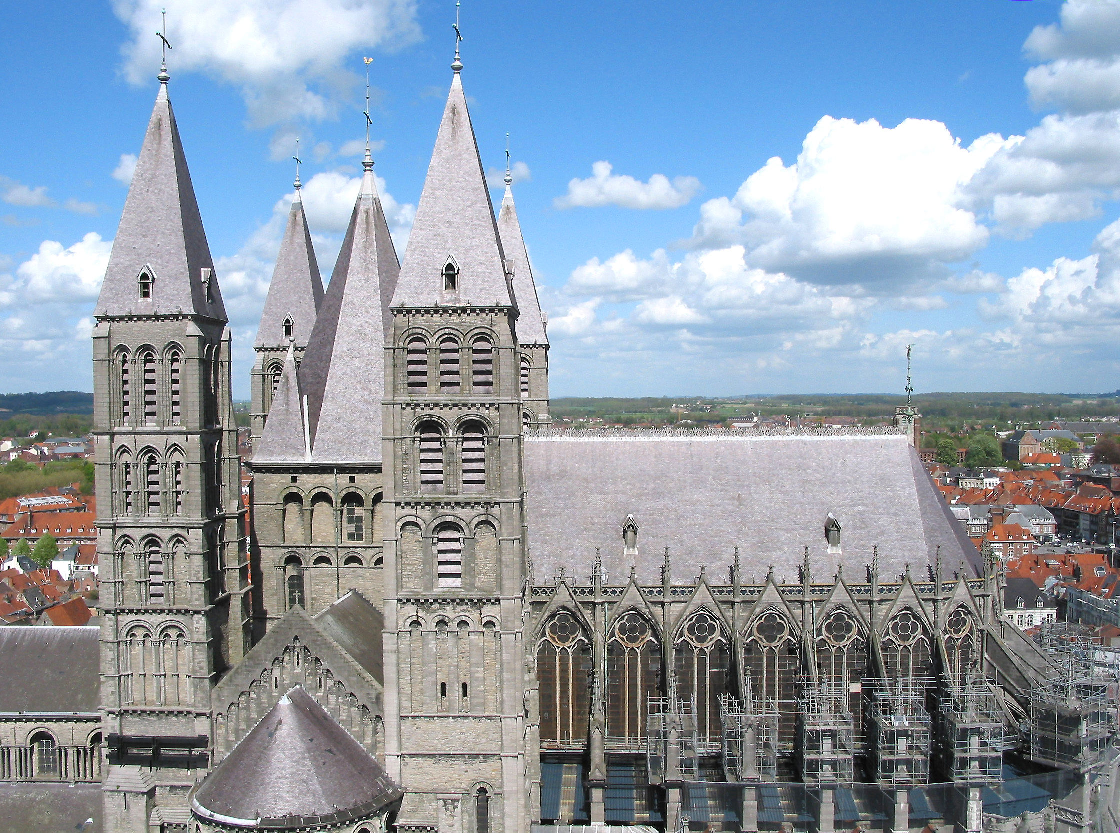 Tournai (Belgium), the five romanesque towers (XIIth century) and the gothic choir (XIIIth century) of the Notre-Dame (Our Lady) cathedral.